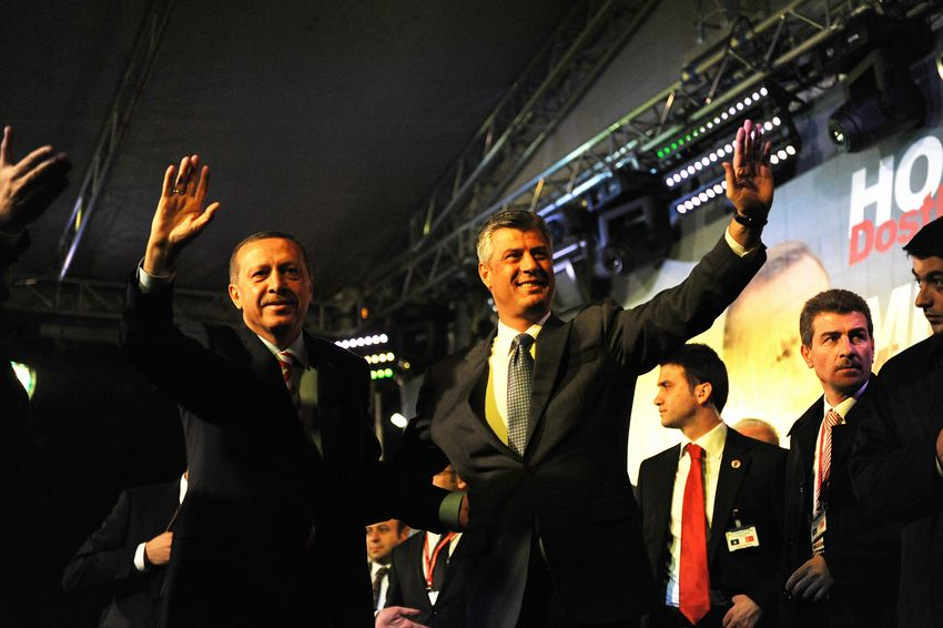 Kosovo Prime Minister Hashim Thaci, right, joined by his Turkish counterpart Recep Tayyip Erdogan , wave at Kosovo residents gathered to welcome his visit in the town of Prizren on Wednesday, Nov. 3, 2010. Erdogan said Turkey was one of the first countries recognizing Kosovo after the country declared its independence on Feb. 17, 2008, "this is the first visit to Kosovo in prime ministerial level from Turkey," he added.